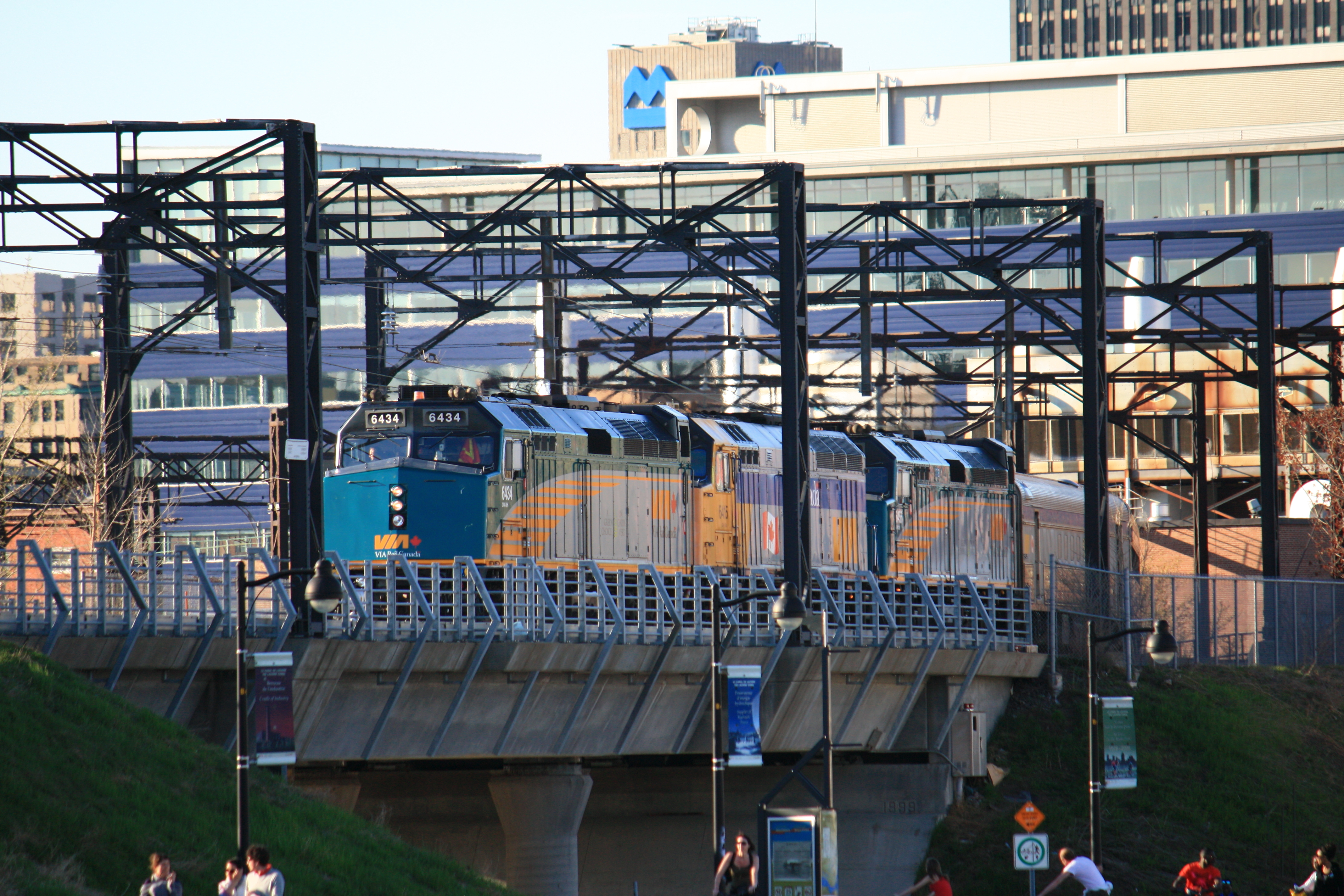 a trio of VIA engines pushing the Halifax/Gaspe train backwards into Central Station, Montreal